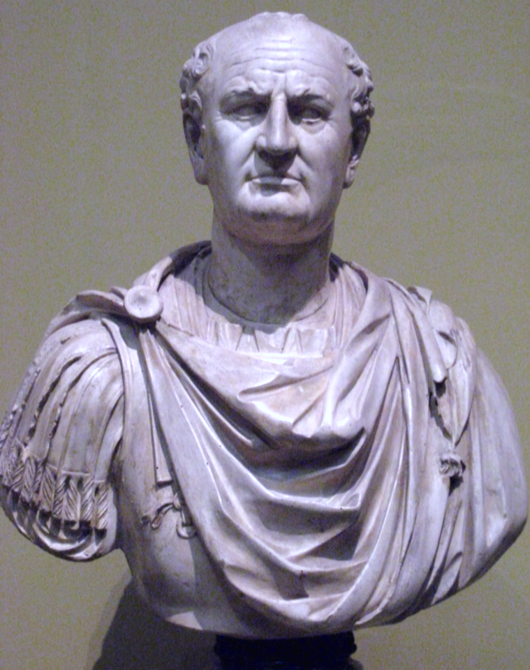 Vespasianus. Plaster cast in Pushkin museum after original in Louvre (L 1261), that was identified as modern art work and removed from collection. Cropped and color adjusted version of original image